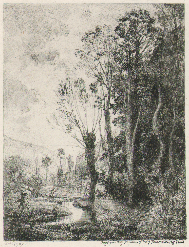 Landscape with satyr. Soft varnish.